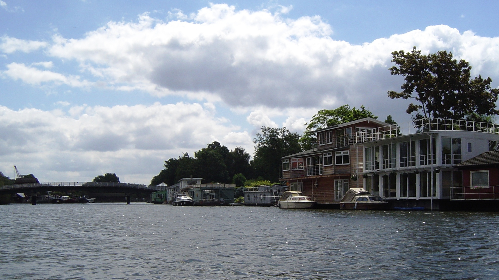 Taggs Island River Thames